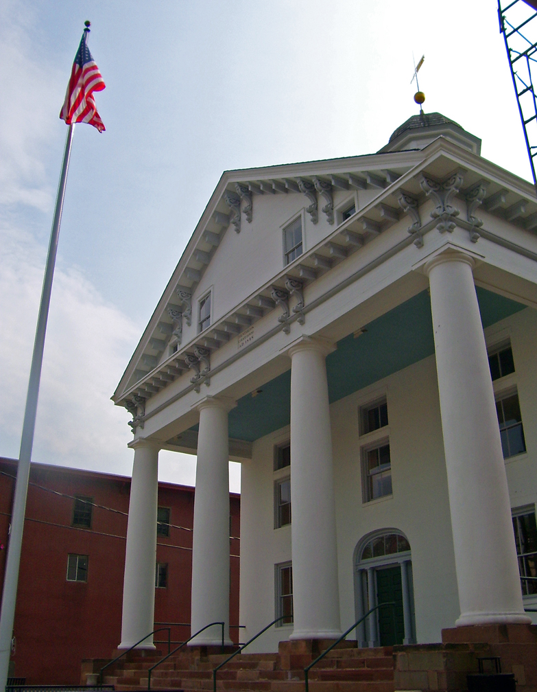 Photographed by Daniel Case 2006-07-27